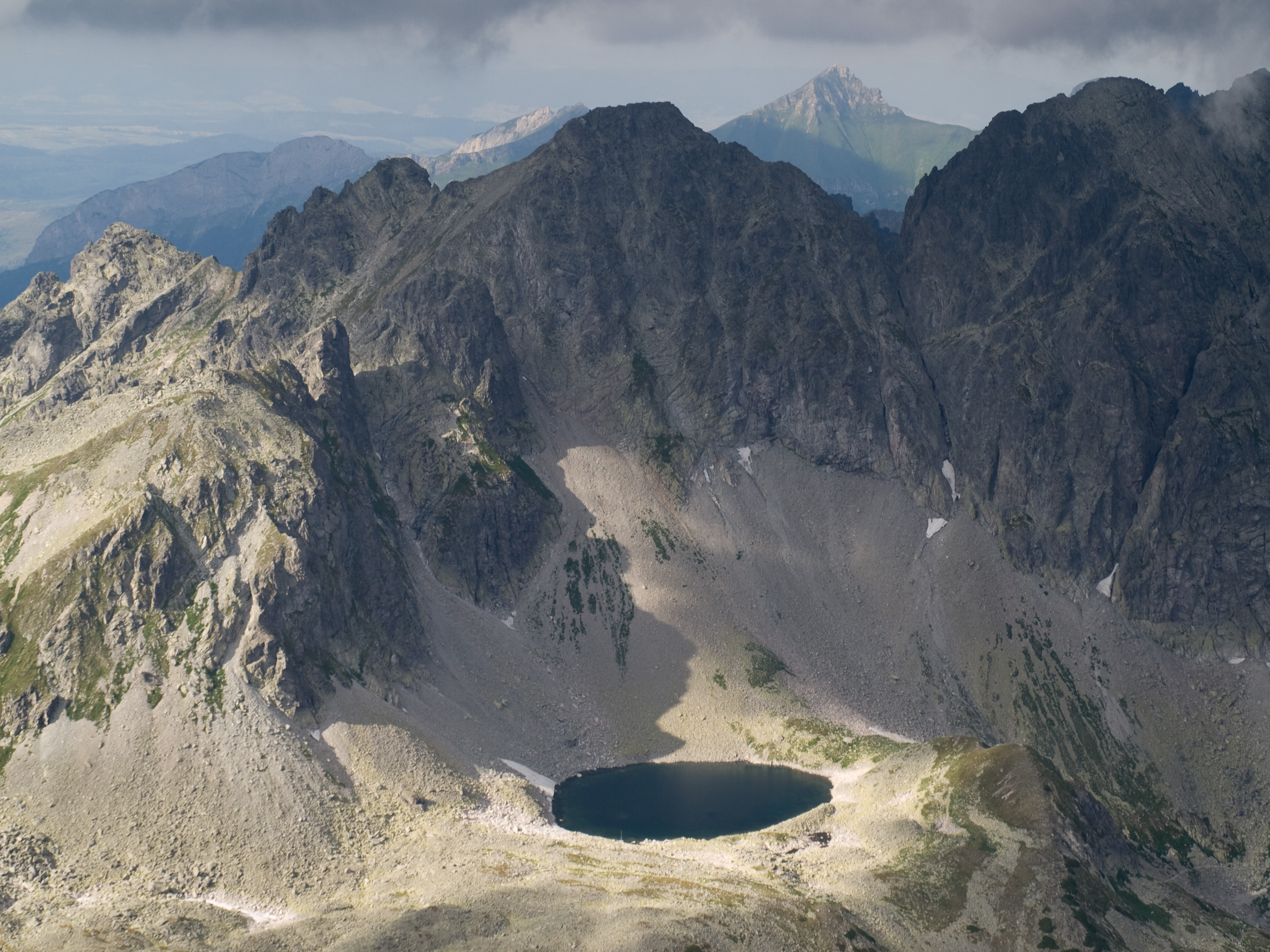 Zbojnícke Ľadové pleso in Veľká Studená dolina, above it – Javorové štíty. View from Bradavica.